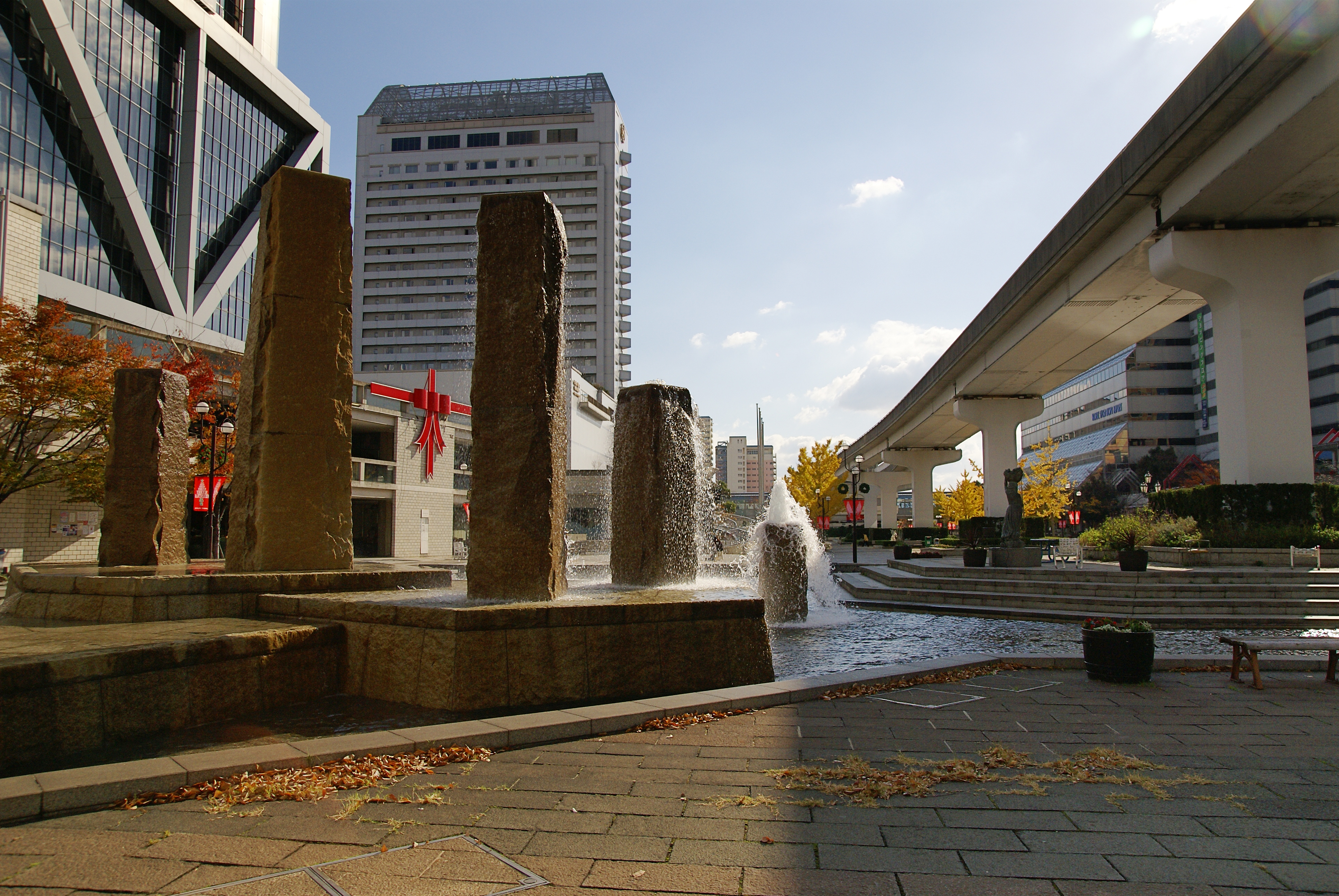 River Mall in Rokko Island, Kobe, Hyogo prefecture, Japan